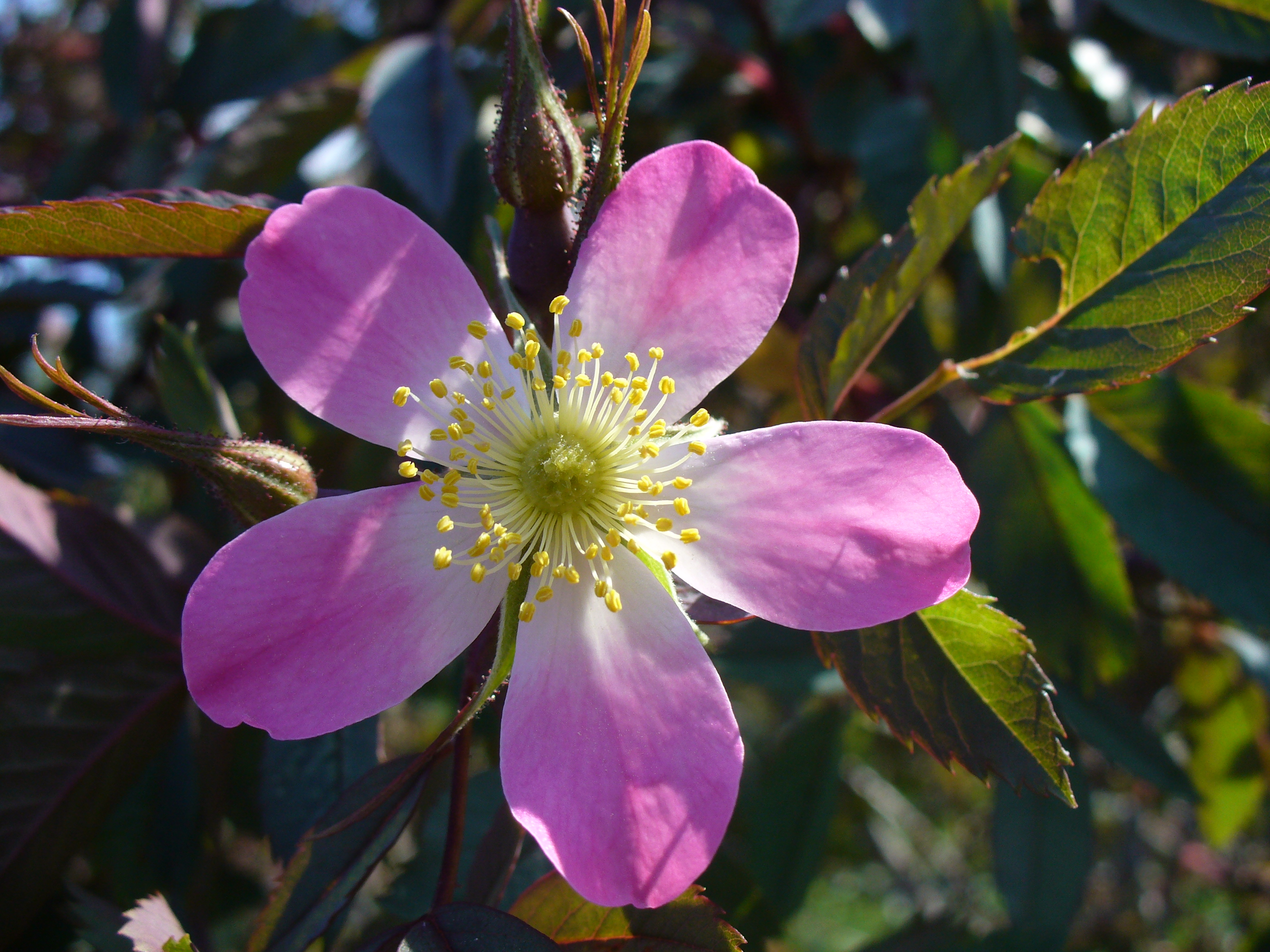 I am the originator of this photo. I hold the copyright. I release it to the public domain. This photo depicts a flower.